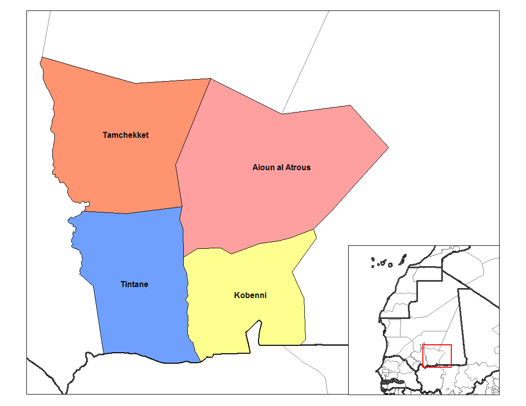 Map of the departments of Hodh El Gharbi region of Mauritania. Created by Rarelibra 20:12, 28 September 2006 (UTC) for public domain use, using MapInfo Professional v8.5 and various mapping resources.